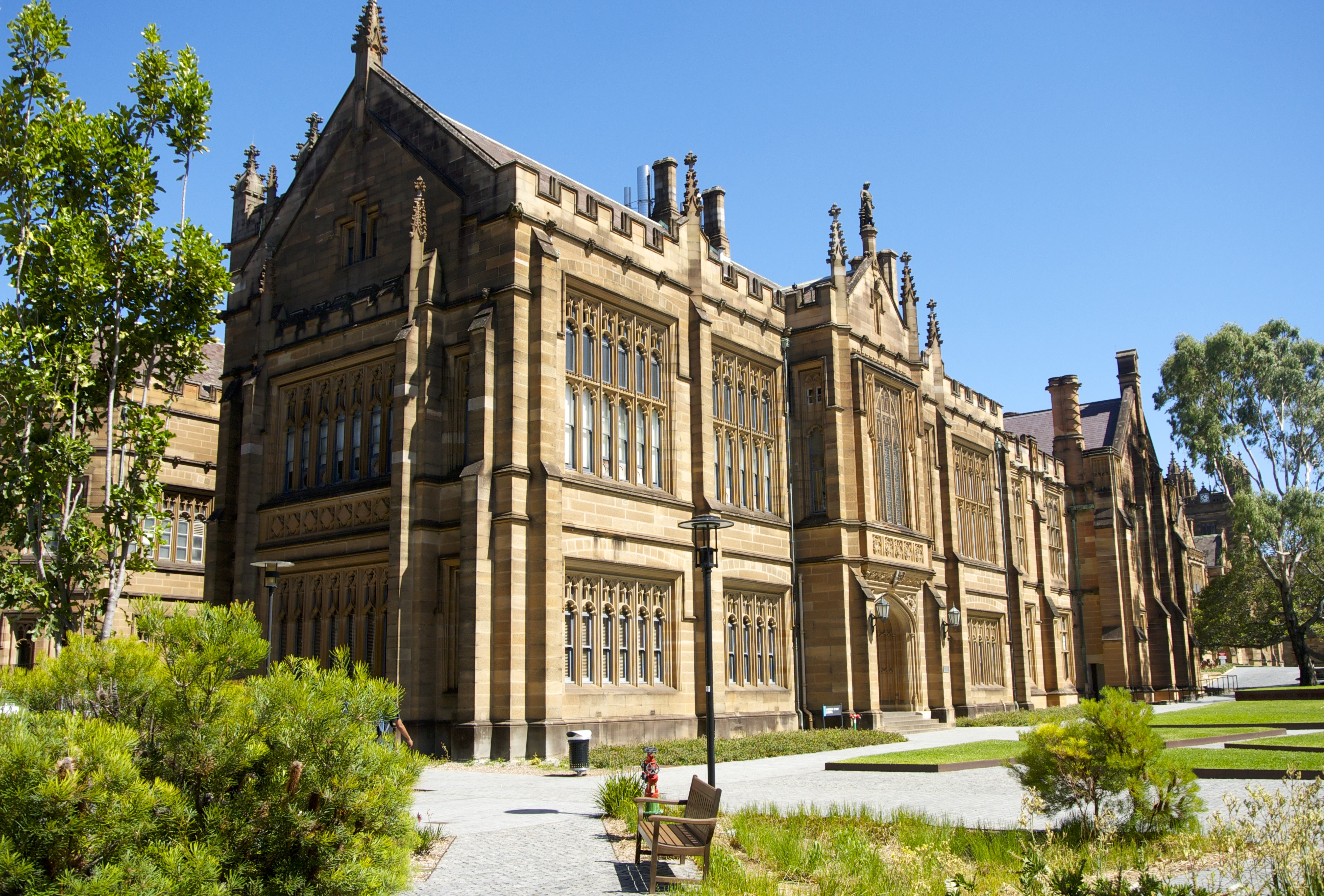 Anderson Stuart Building